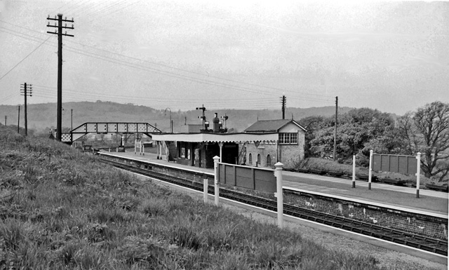 Bala Junction Station. View westward, towards Dolgelley (now Dolgellau), also (to right) Bala and Blaenau Ffestiniog; ex-GWR Ruabon - Dolgelley - Barmouth secondary main line, junction for Bala and Blaenau Ffestiniog. The passenger service Bala - Blaenau had ceased on 4/1/60 (for goods 30/1/61); the main line the short remaining branch to Bala lasted until 18/1/65.